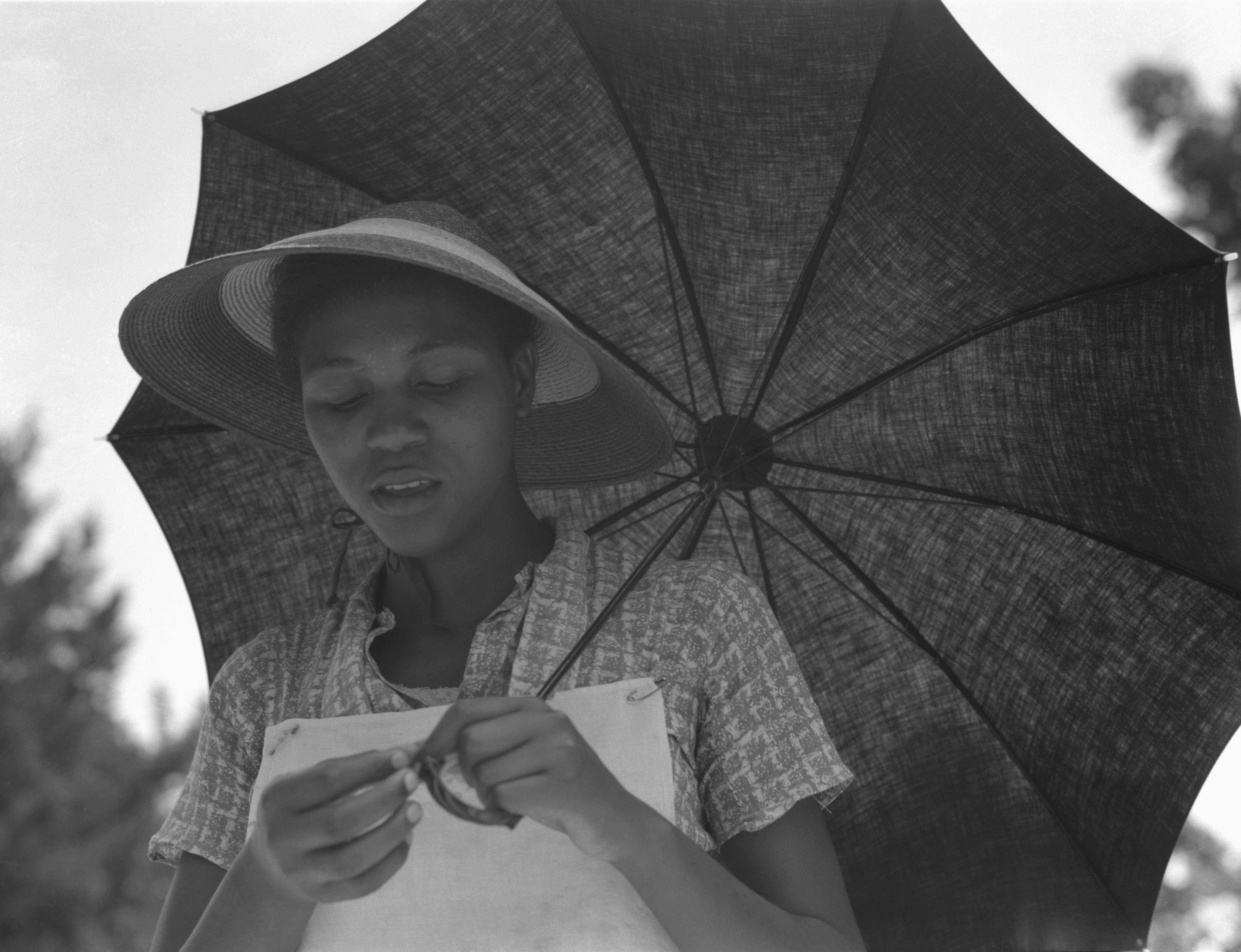 Young woman with umbrella, Louisiana, 1937. Original title: "Louisiana Negress".